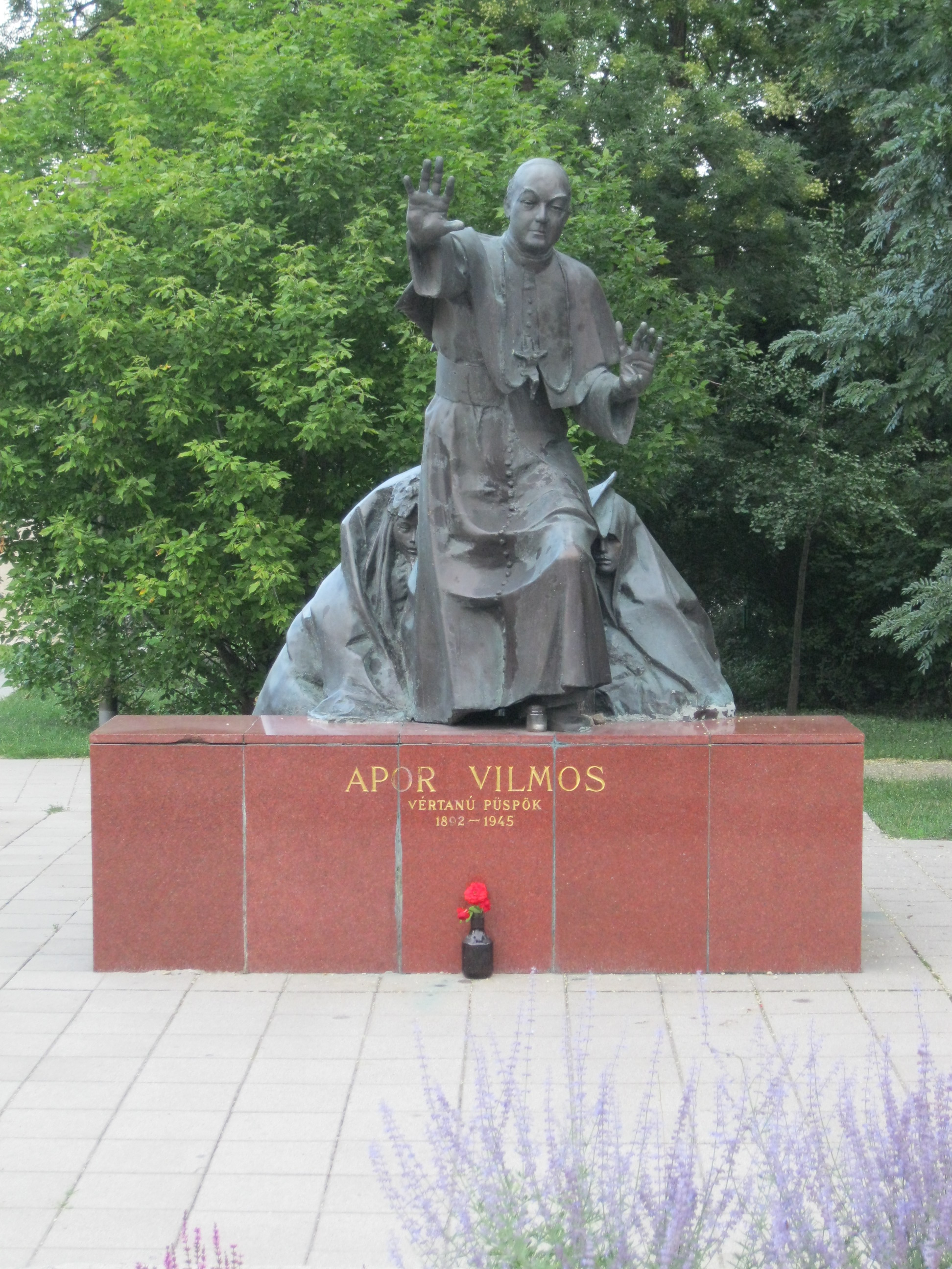 Statue of Vilmos Apor in Budapest District XII, Apor Vilmos Square. Sculptor: László Marton. Erected in 1997.